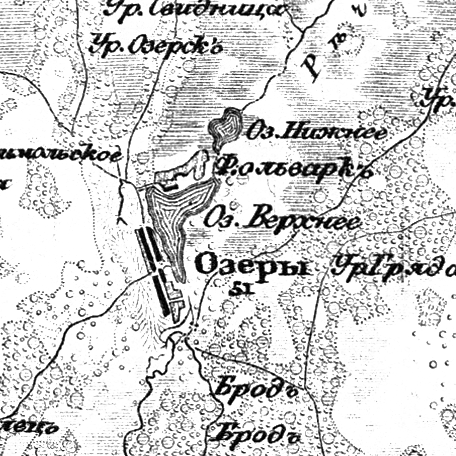 Ozery on the map "Военно-топографическая карта Российской Империи" (known as "Schubert's map"), XX 5, 1866-1887 (issued in 1913).